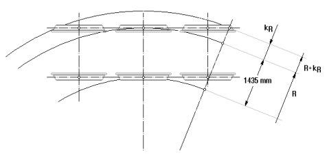 Bogie in radius